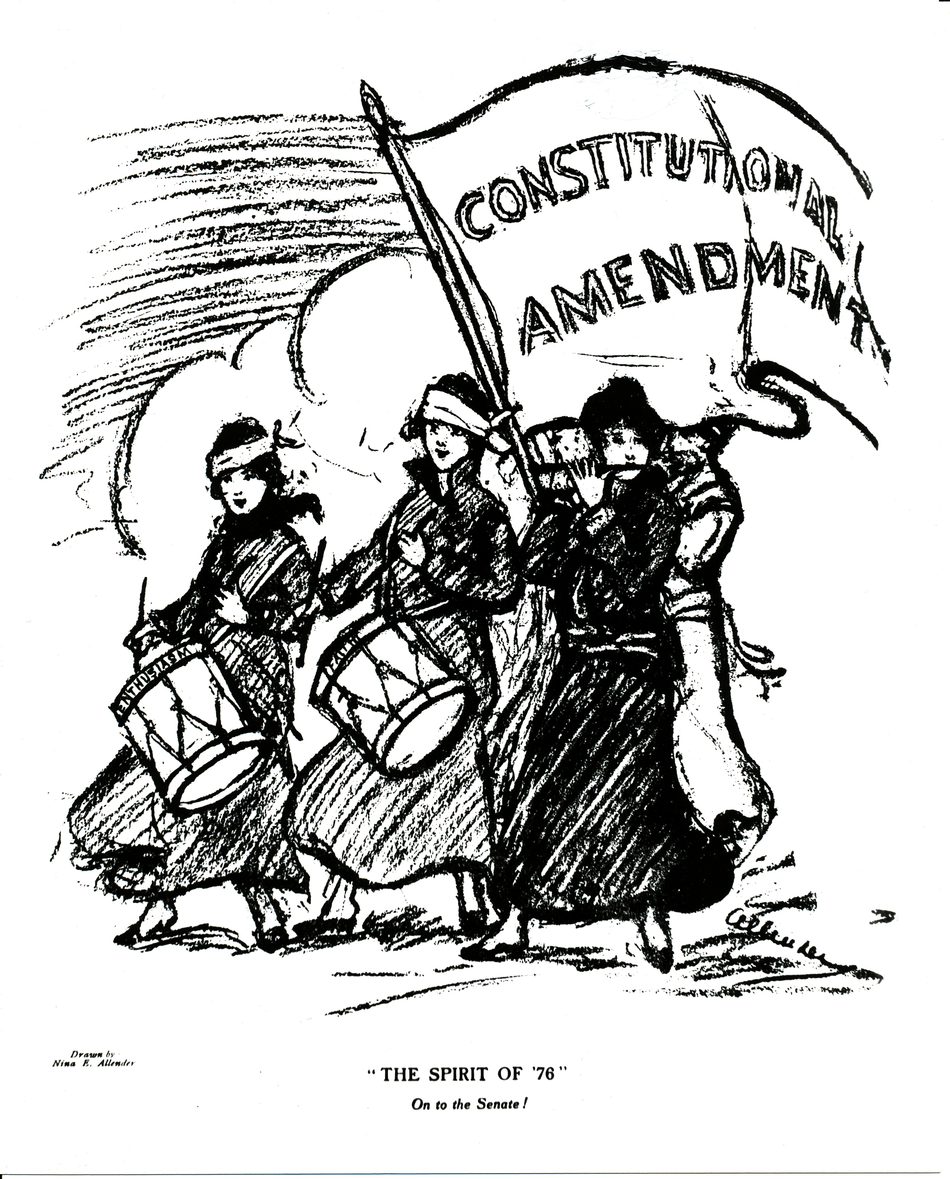 Published in The Suffragist 30 Jan 1915.